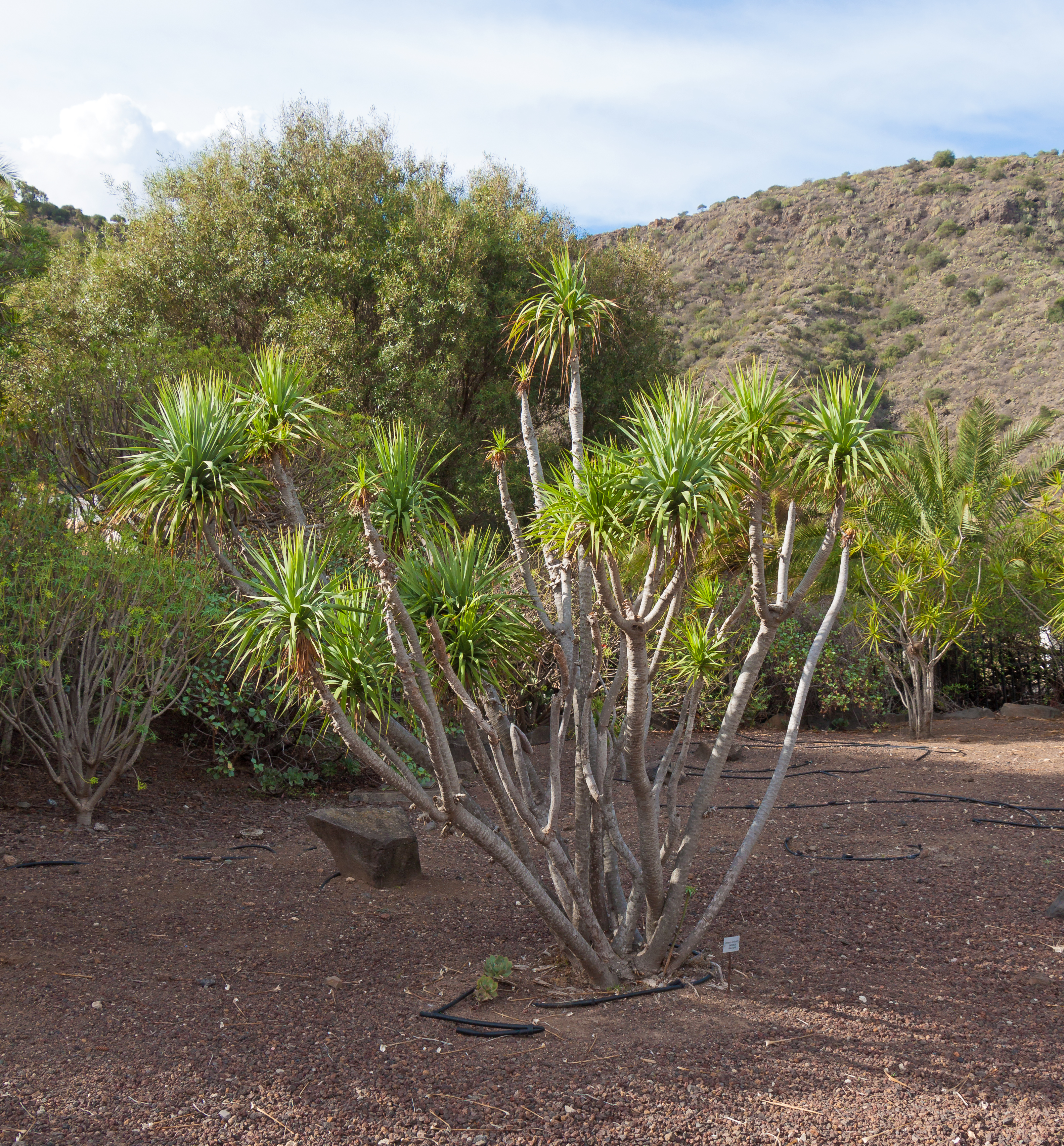 Dracaena ellenbeckiana Engl.; Habitus; Jardín Botánico Canario Viera y Clavijo, Gran Canaria, Canary Islands, Spain.